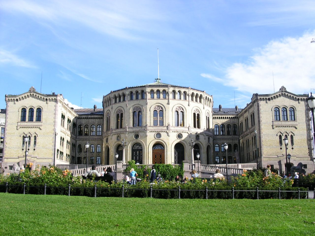 Norway's parliament building on Løvebakken.